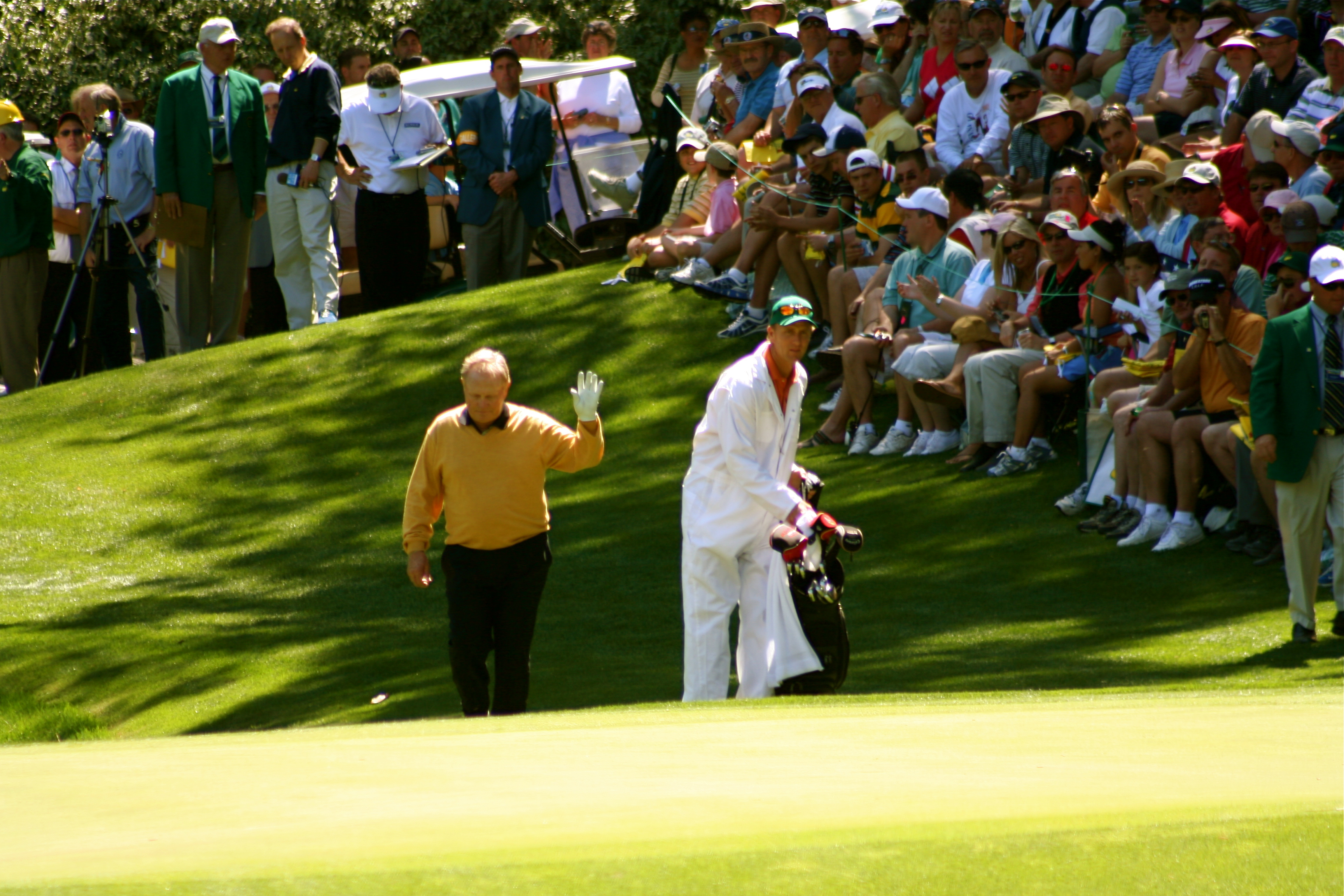 Jack Nicklaus, with his son Jack Nicklaus II as his caddy, walking up to the 9th green during the 2006 par-3 contest held prior to the Masters Tournament.